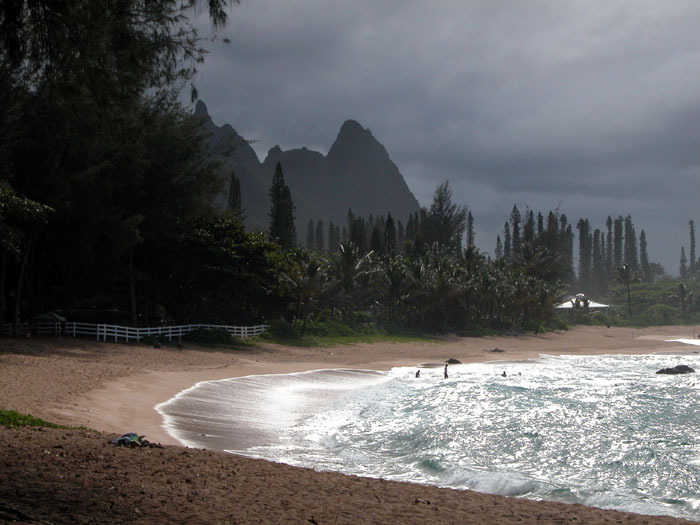 Kauai, Hawaii. That's Makana mountain in the background, also known as Bali Hai.